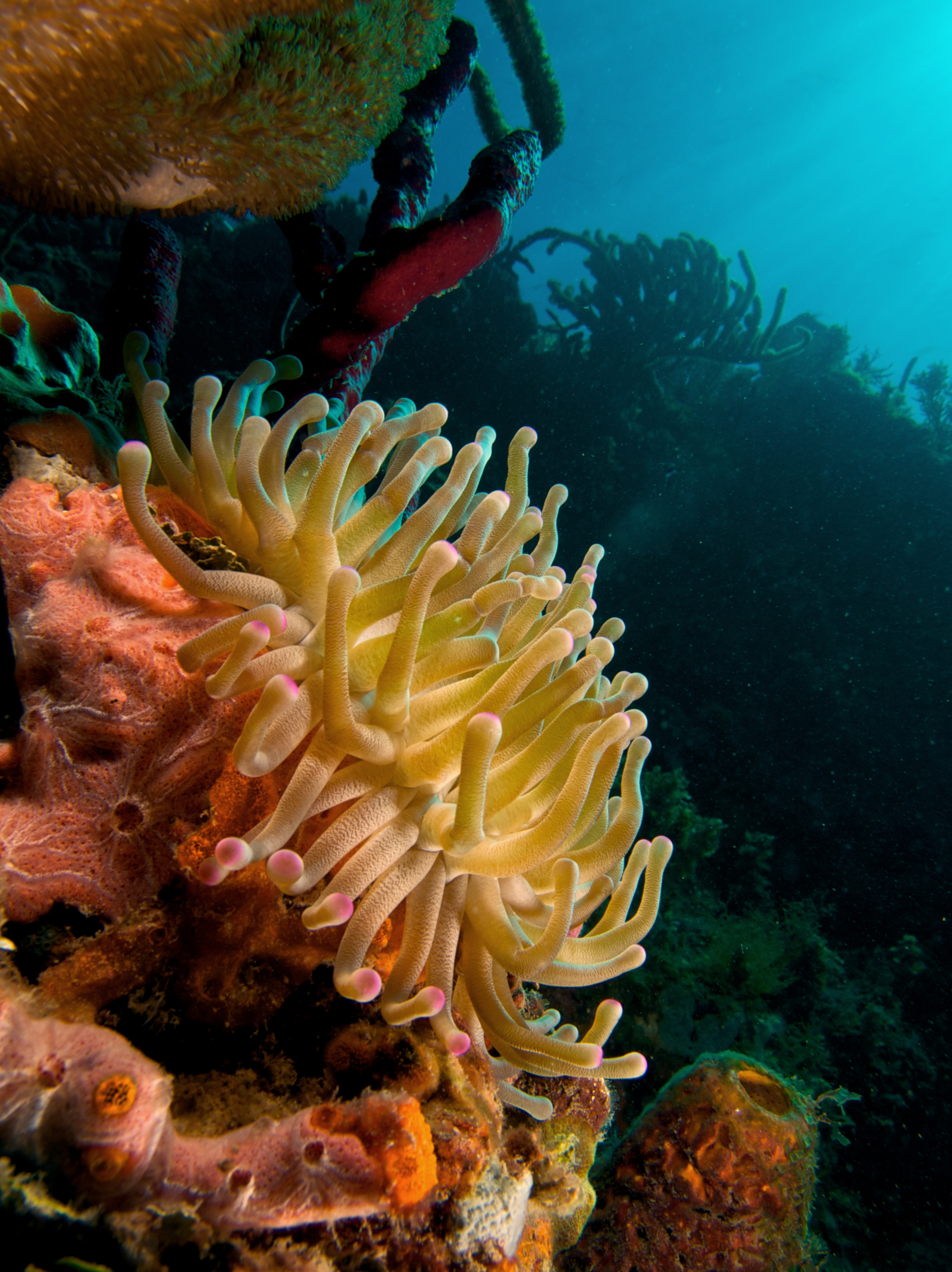 Condylactis gigantea (Giant Anemone - yellow & pink tip variation).